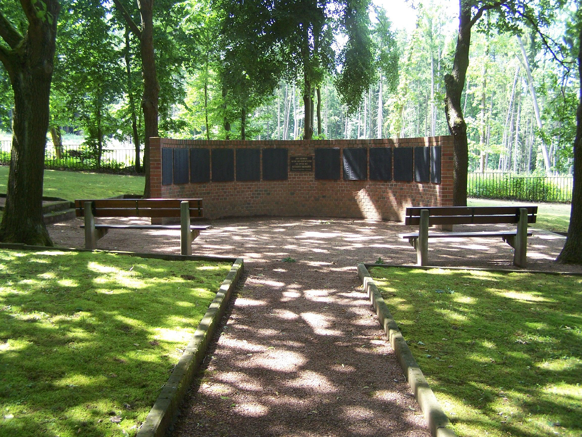 The memorial place In den Erlengräben for the soviet victims of compulsory labour and prisoners of war.